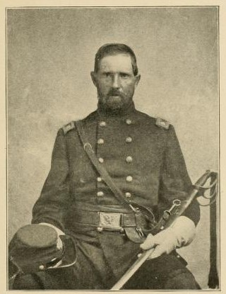 Lt. Col. James O'Brien of the 48th Massachusetts Infantry was killed during the first assault on Port Hudson, Louisiana, May 27, 1862